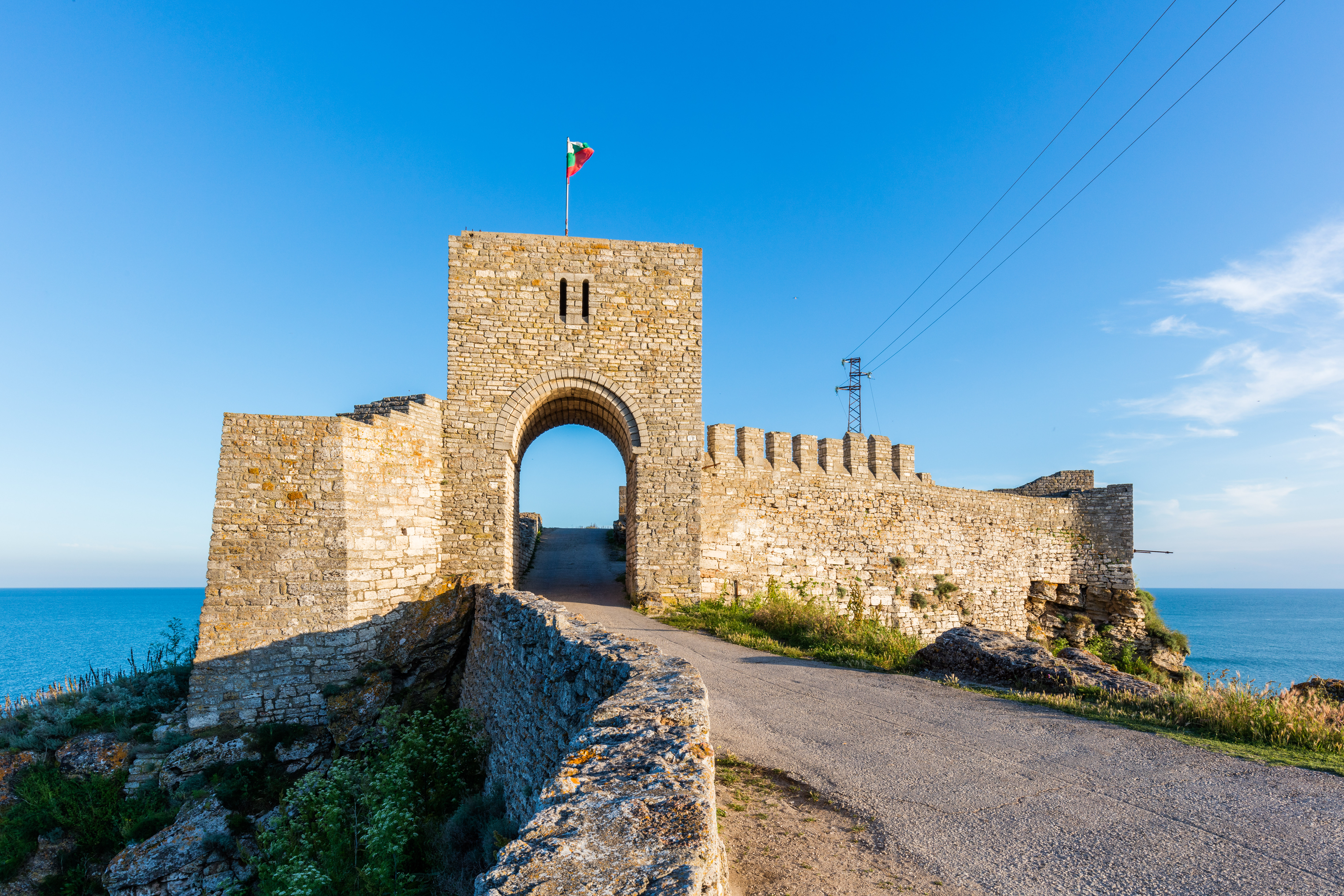 Cape of Kaliakra, Bulgaria